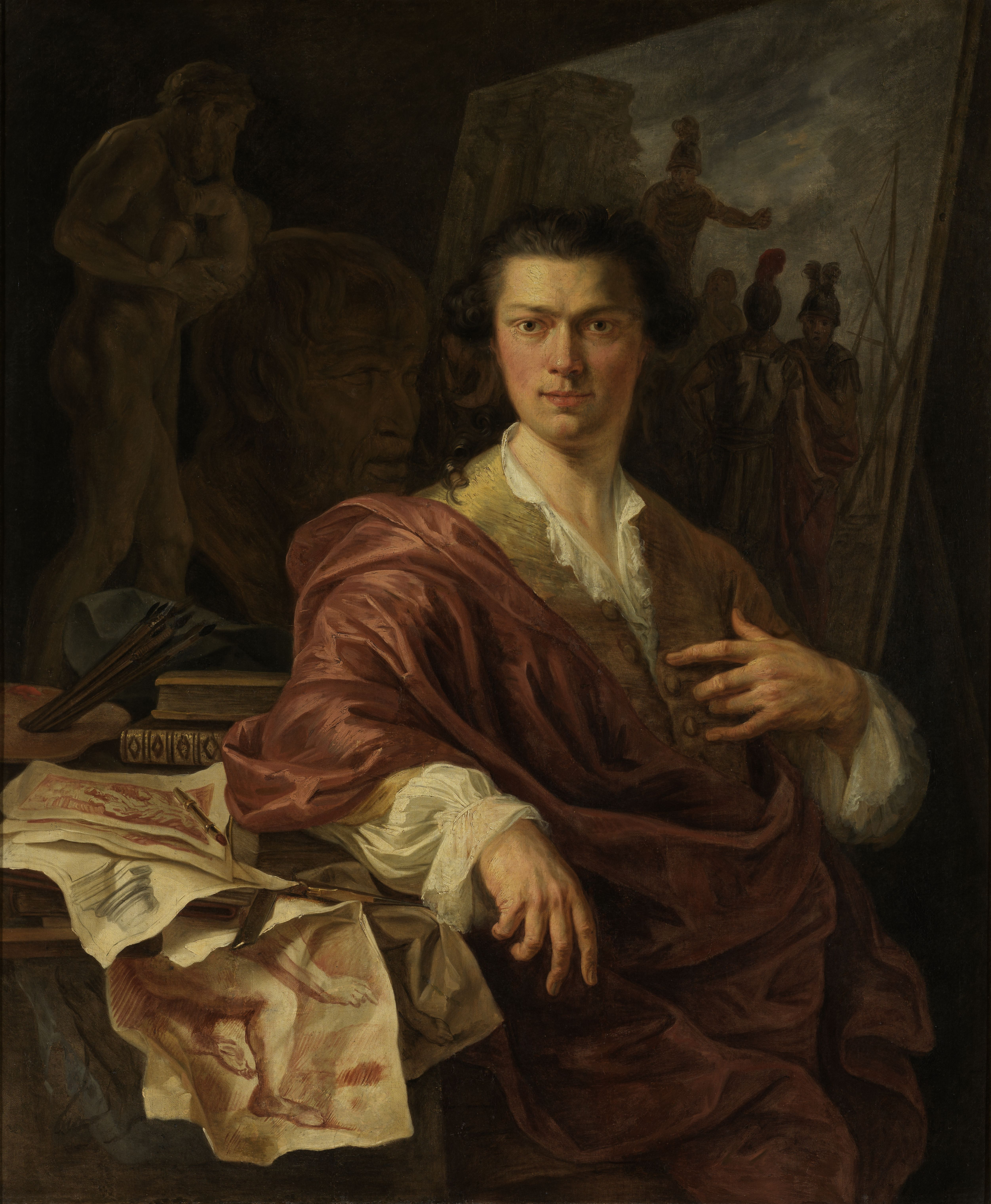 Portrait of Artist A. C. Lens (1739-1822)